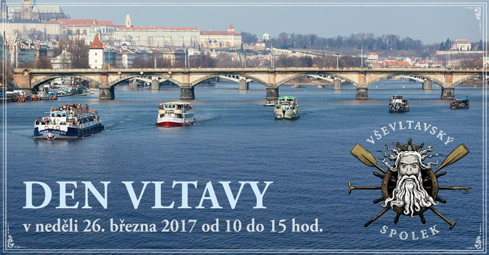 Vševltavský spolek